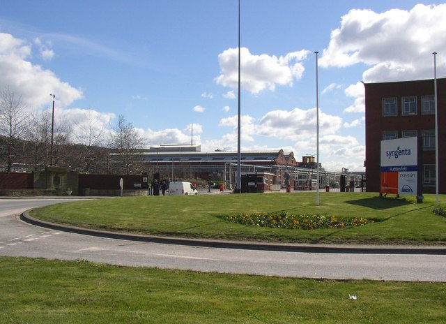 Entrance to Syngenta chemical works, Leeds Road, Deighton, Huddersfield This was an ICI factory for many years.